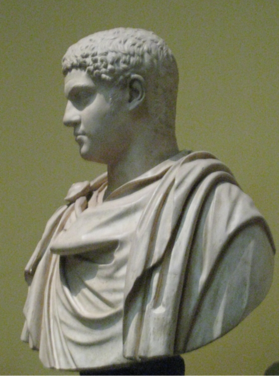 Emperor Geta. Cast in Pushkin Museum after original in Louvre